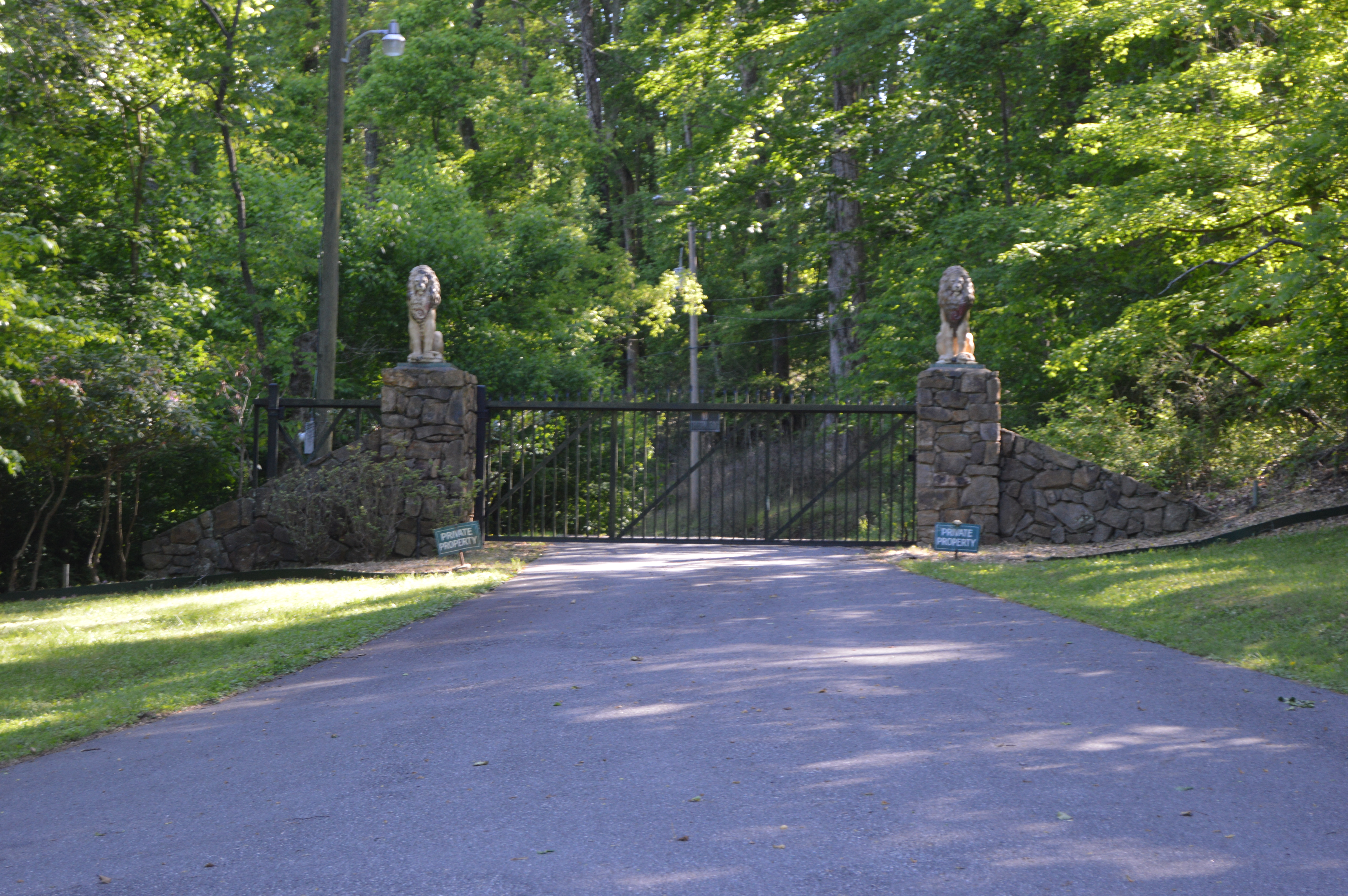 Gate to the driveway of the Marshall Field and Company Clubhouse, located off River Road between Fieldale and Martinsville in Henry County, Virginia, United States. The clubhouse is listed on the National Register of Historic Places.